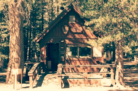 Devils Postpile National Monument ranger cabin in Madera California is the oldest building in Devils Postpile National Monument!